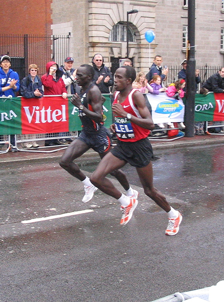 2006 London Marathon winner Felix Limo along with 2005 & 2007 winner Martin Lel during 2006 London Marathon